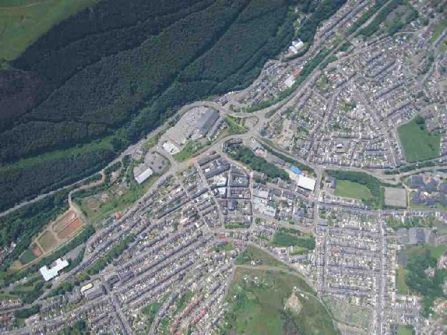 Abertillery from a Paraglider